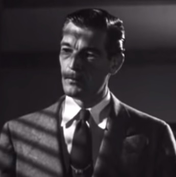 Rory Mallinson in He Walked by Night (1948) - cropped screenshot